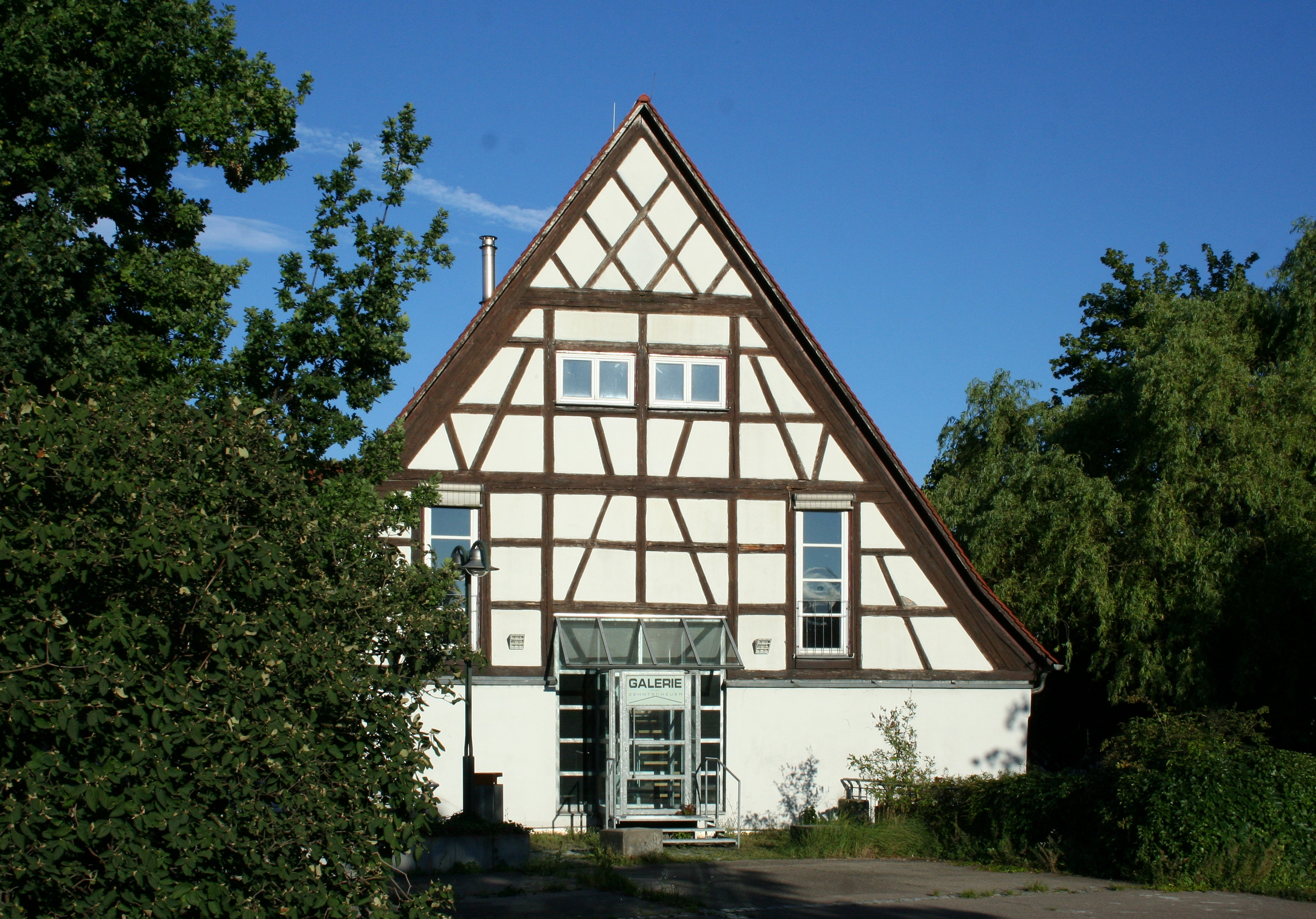 1569 built former tenth barns in Stuttgart. Town district Stuttgart-Zuffenhausen, Baden-Wurttemberg, Germany.